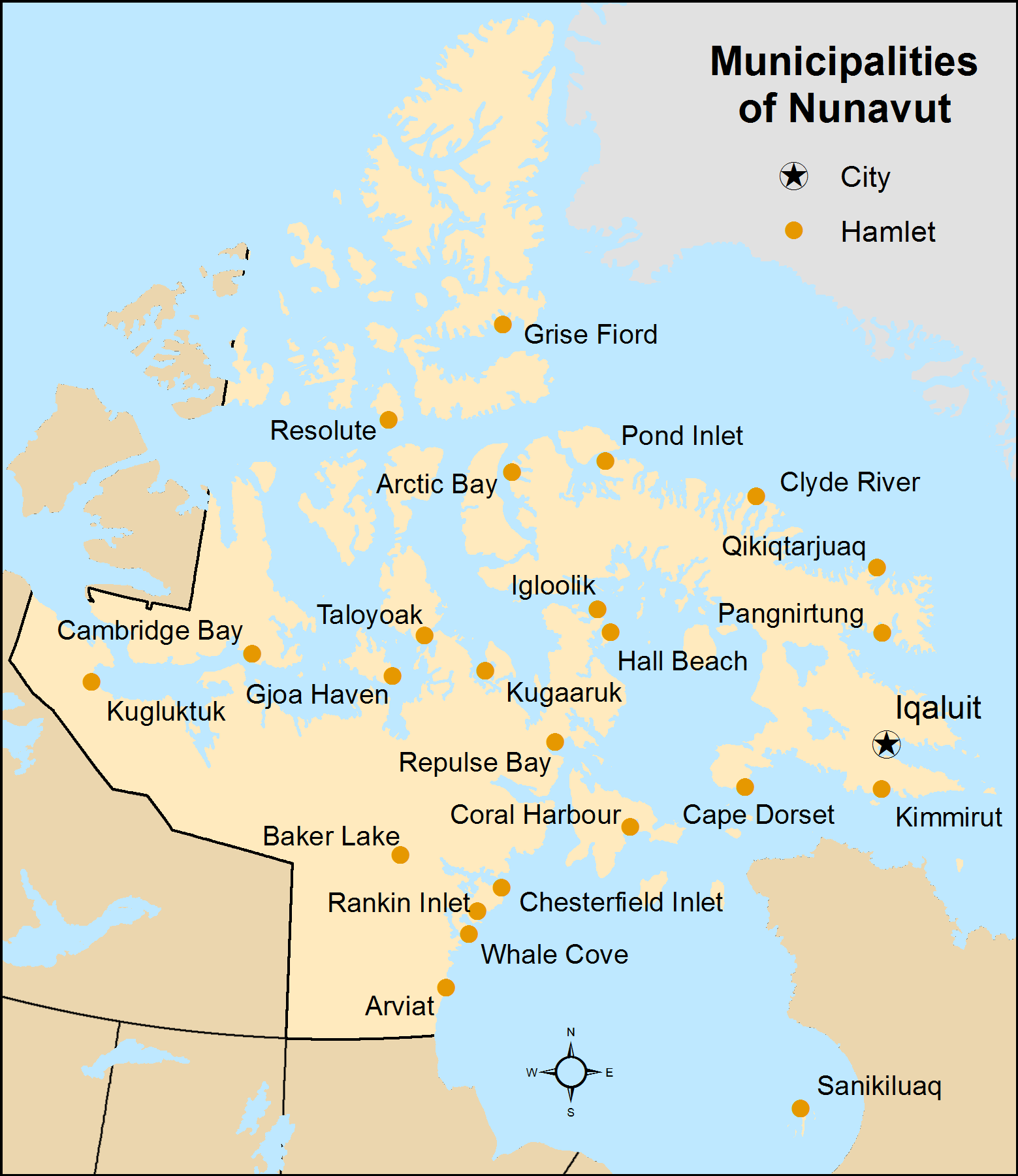 Municipalities of Nunavut as of 2013